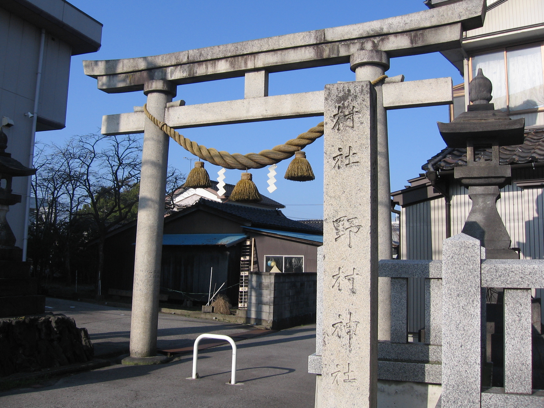 The torii of Nomura Shrine. In Nomura, Takaoka, Toyama, Japan.